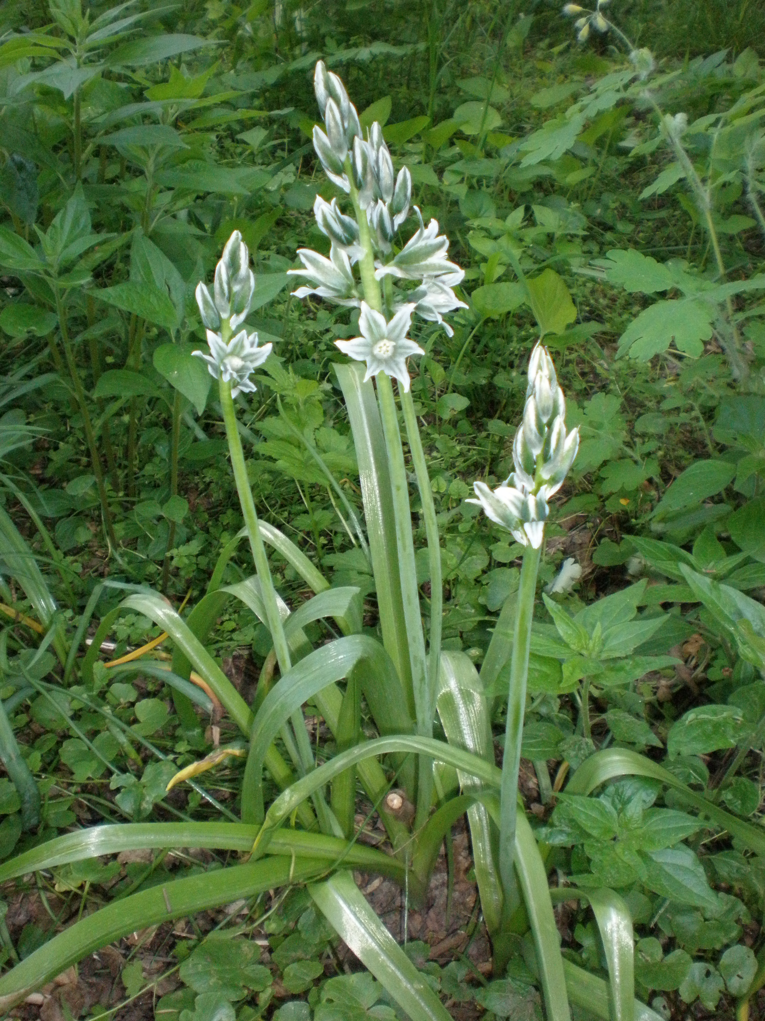 Ornithogalum boucheanum